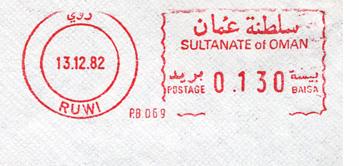 Meter stamp catalog image, Oman type 4